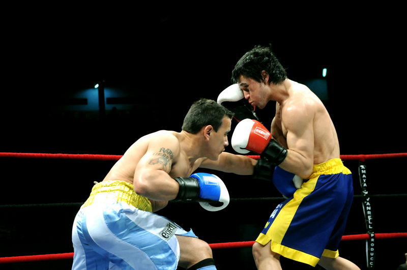 Men's boxing at the Palacio Peñarol. Montevideo, Uruguay.